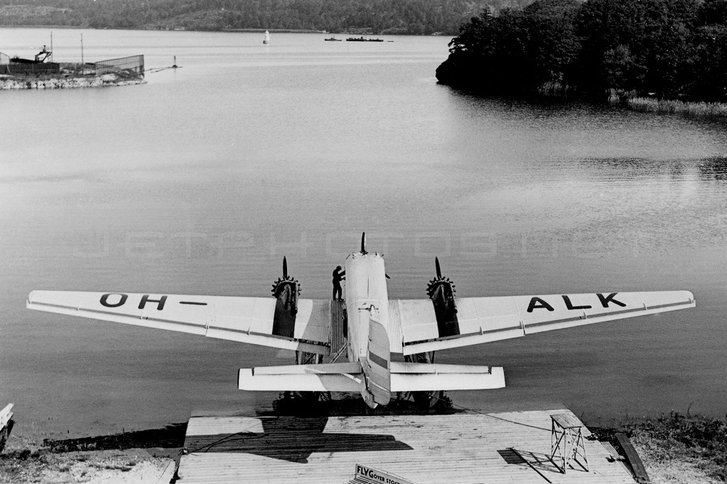 Aero O/Y Junkers 52/3m (OH-ALK) named "SAMPO" pictured at Lindarängen in Stockholm in early 1930´s. Photo from Finnair.